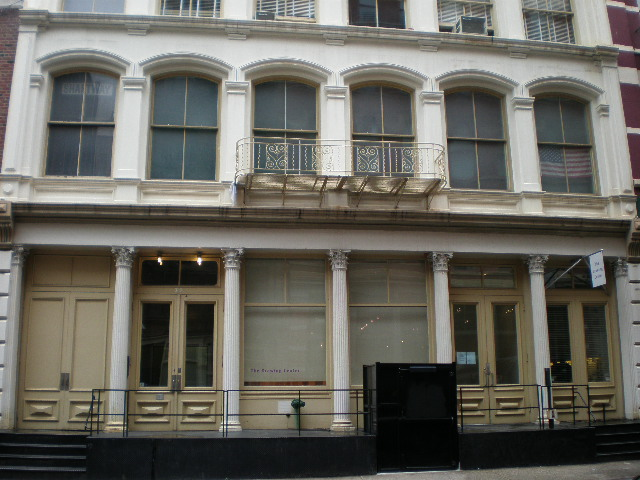 This photo is of Wikipedia Takes Manhattan location code 134, Drawing Center.